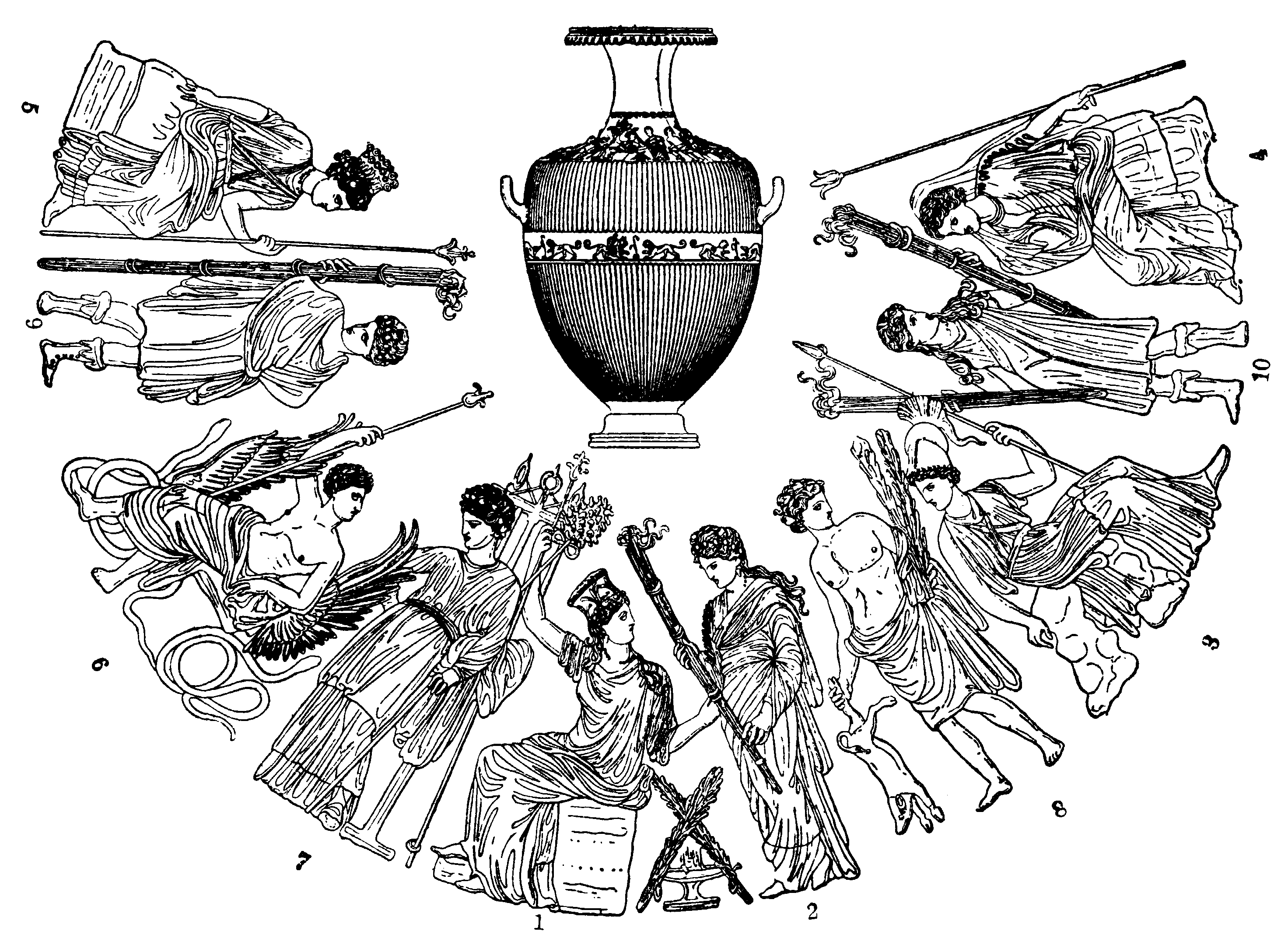 Ideal depiction of Eleusinian and Athenian gods and Eleusinian priests. From an ancient drawing on a vase (middle of image) found in Cumae. Demeter Persephone Athena Aphrodite Artemis Triptolemus (Eleusinian hero) Hierophant The Templepriest The Herald (Hekate (mit zwei Fackeln. siehe Pergamonfries?))